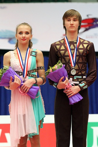 Victoria Sinitsina / Ruslan Zhiganshin at the 2010-2011 Junior Grand Prix of Figure Skating Final.